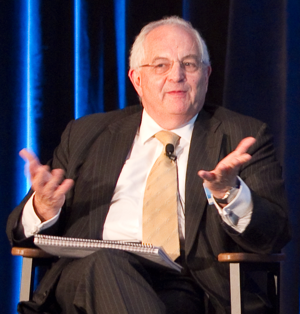 Martin Wolf in 2011, cropped from original pic by Daphne Borowski for the Financial Times.